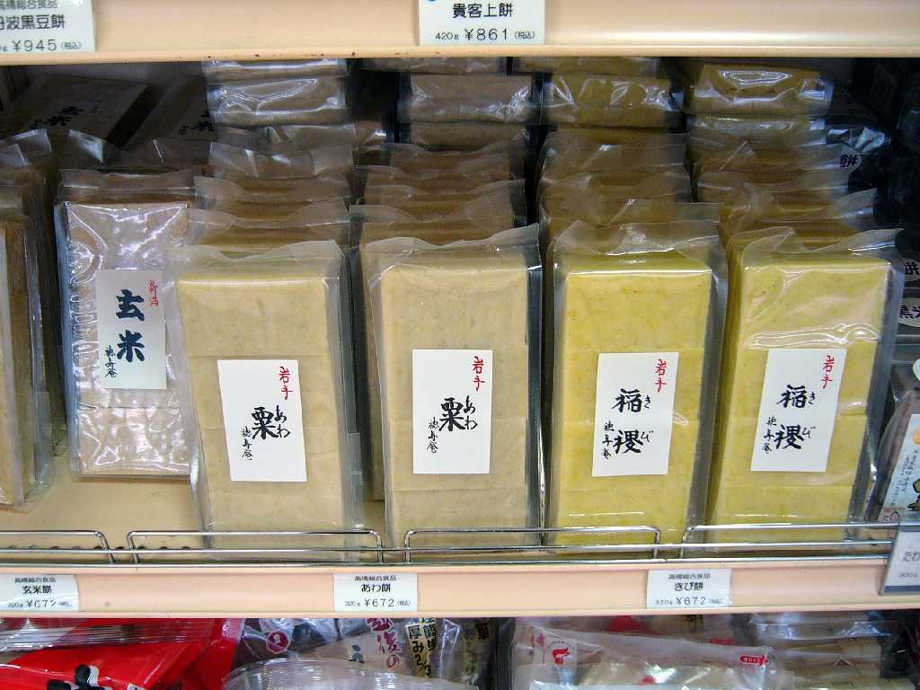 Mochi (Japanese: 餅)Japanese rice cake